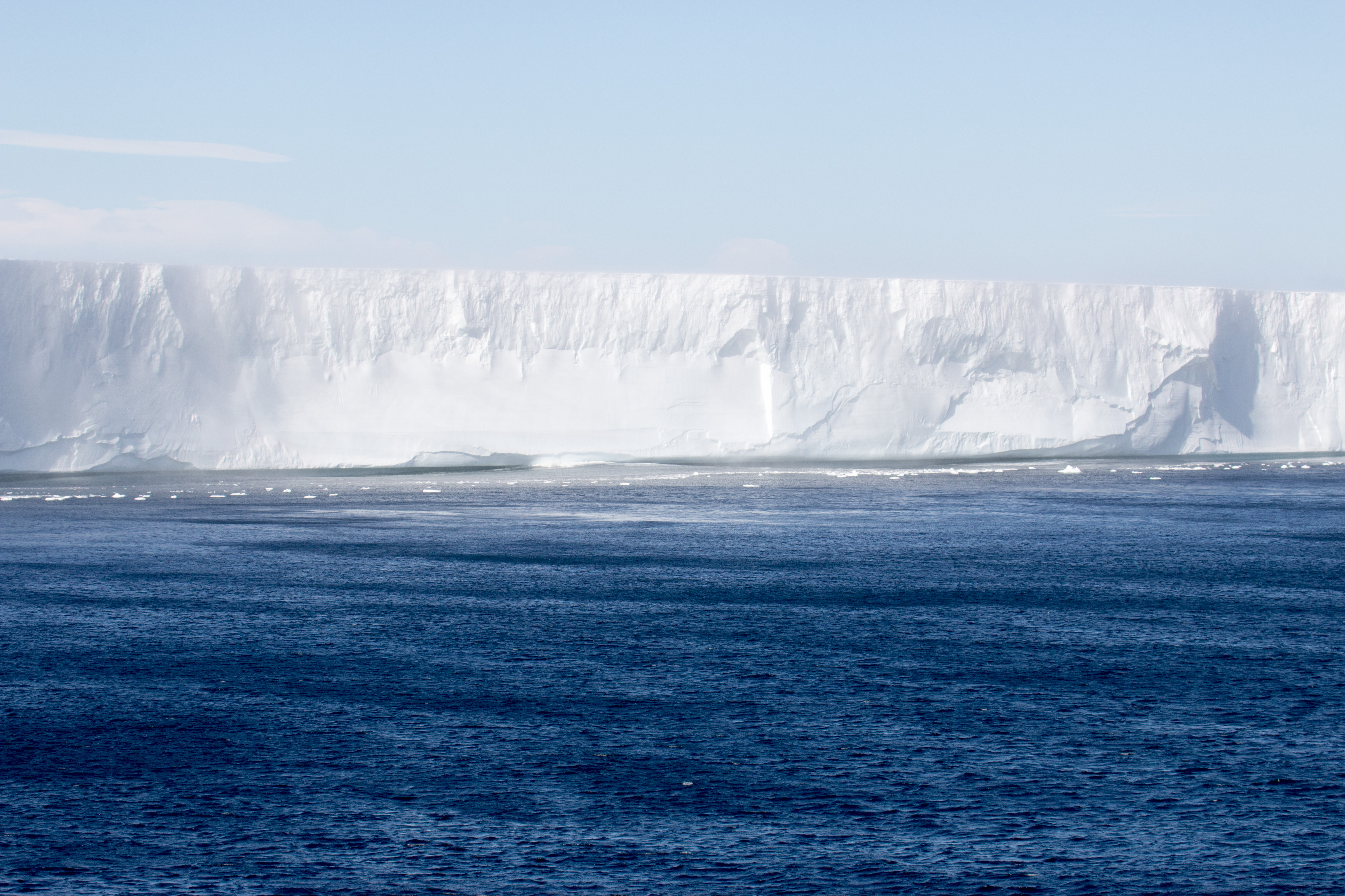 Photos from my Silversea Silver Cloud expedition cruise to the South Shetland Islands and Antarctica Peninsula in March 2019. For more visit for videos and articles